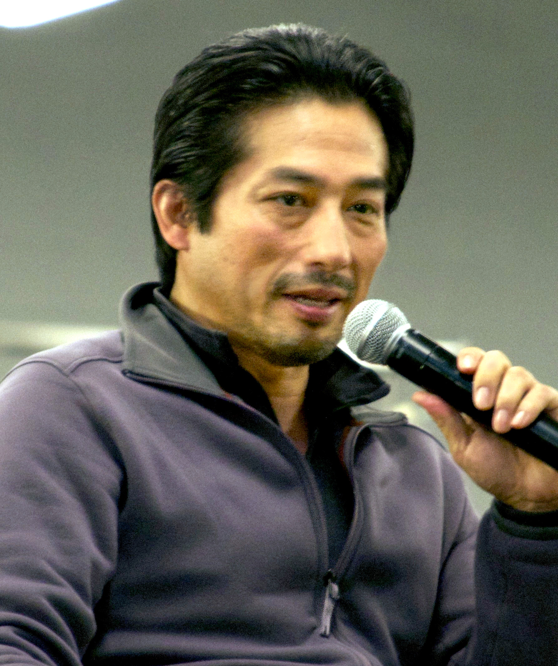 The 2013 2013 Syfy Channel Press Day